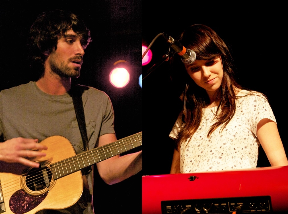 The Narrative 2011-04-26 at Vinyl